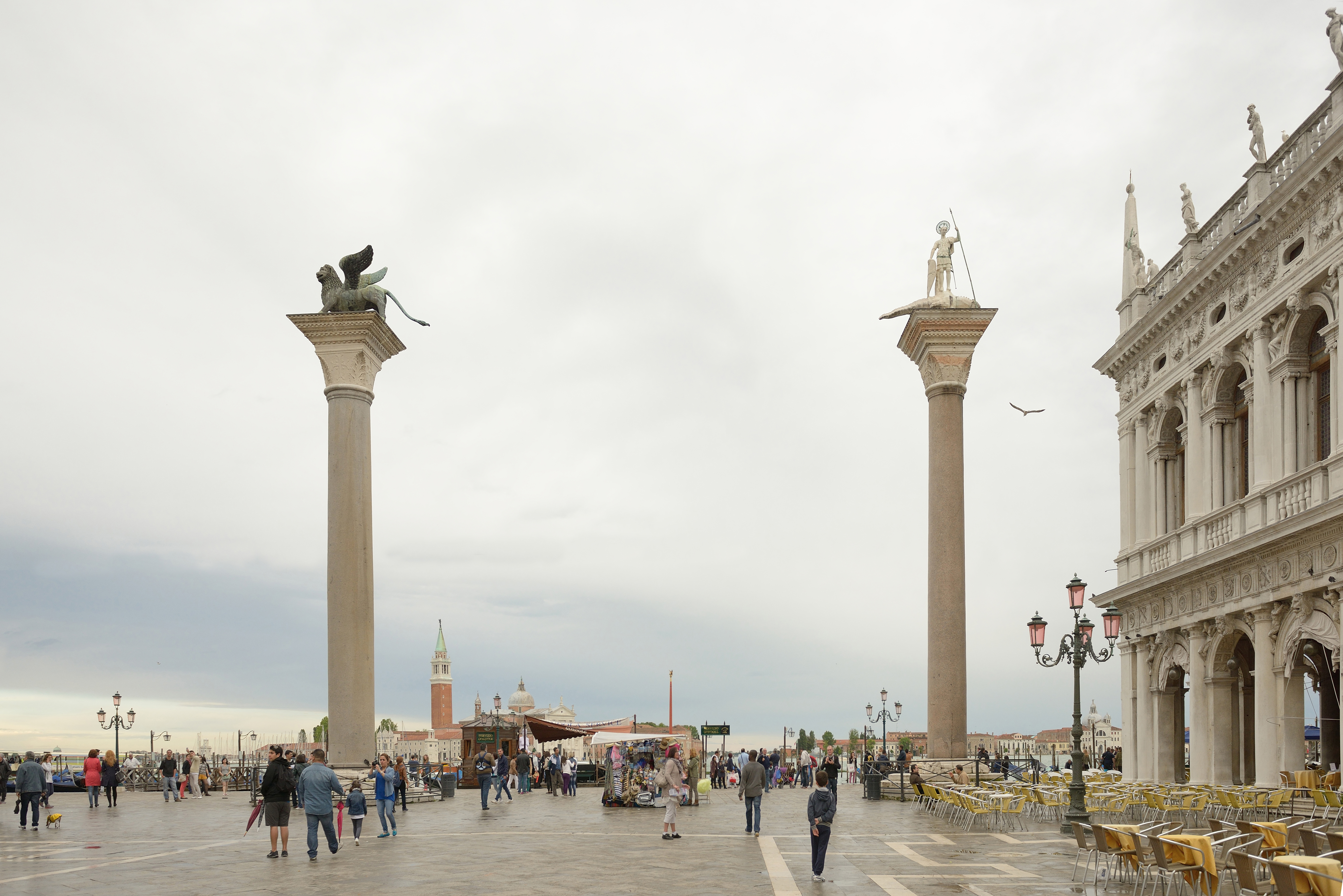 View of the Colonna di San Marco and the Colonna di San Teodoro columns with the Biblioteca Marciana on the Piazzetta San Marco square in Venice